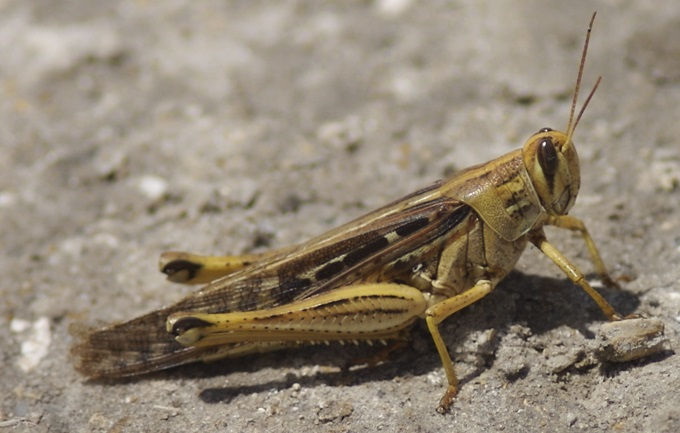 Schistocerca americana south of Clewiston, Hendry Co., Florida, USA